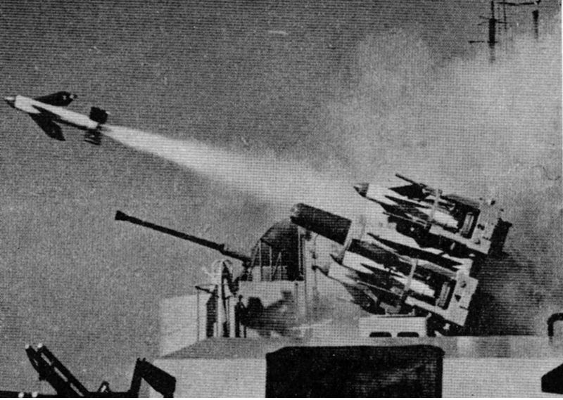 Short Sea Cat Missile firing from Swedish Destroyer "Södermanland"